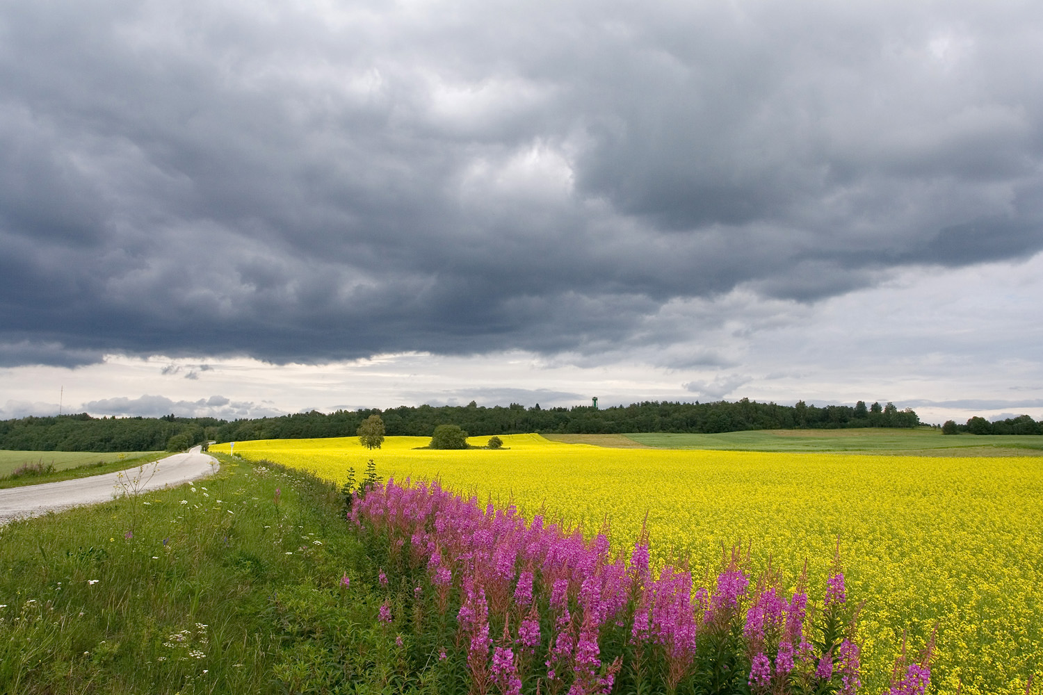 View of Emumägi from SW. Emumäe landscape protection area. picture taken at 58,9332N 28,3642E looking towards NE.